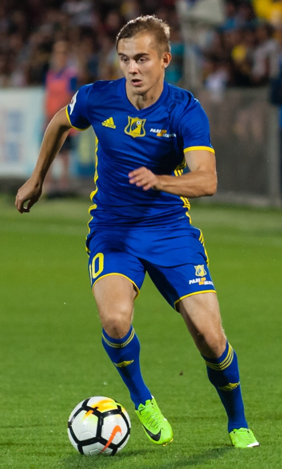 Aleksandr Zuyev with FC Rostov in a game against FC Krasnodar.